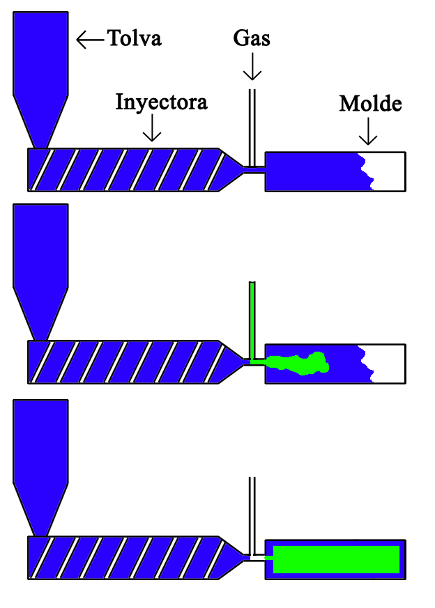 GAIM Gas Assisted Injection Molding